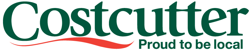 The current costcutter logo.